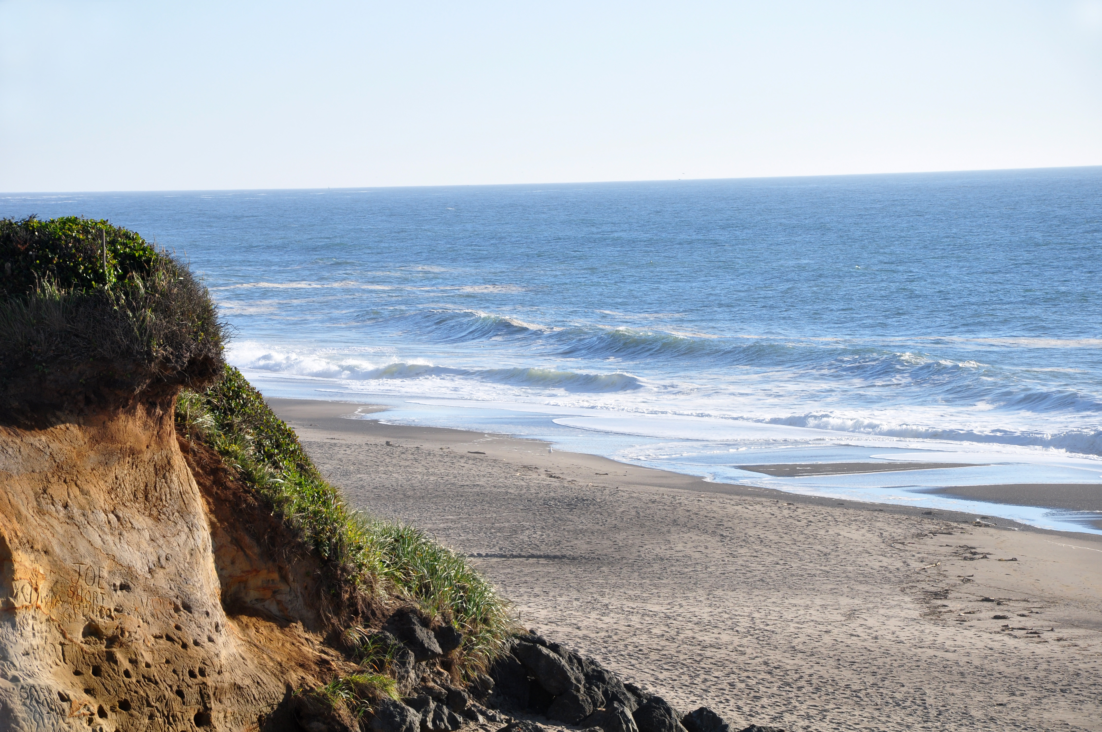 Gleneden Beach State Recreation Site near Gleneden Beach, Oregon, in the United States. View is to the southwest over the Pacific Ocean.